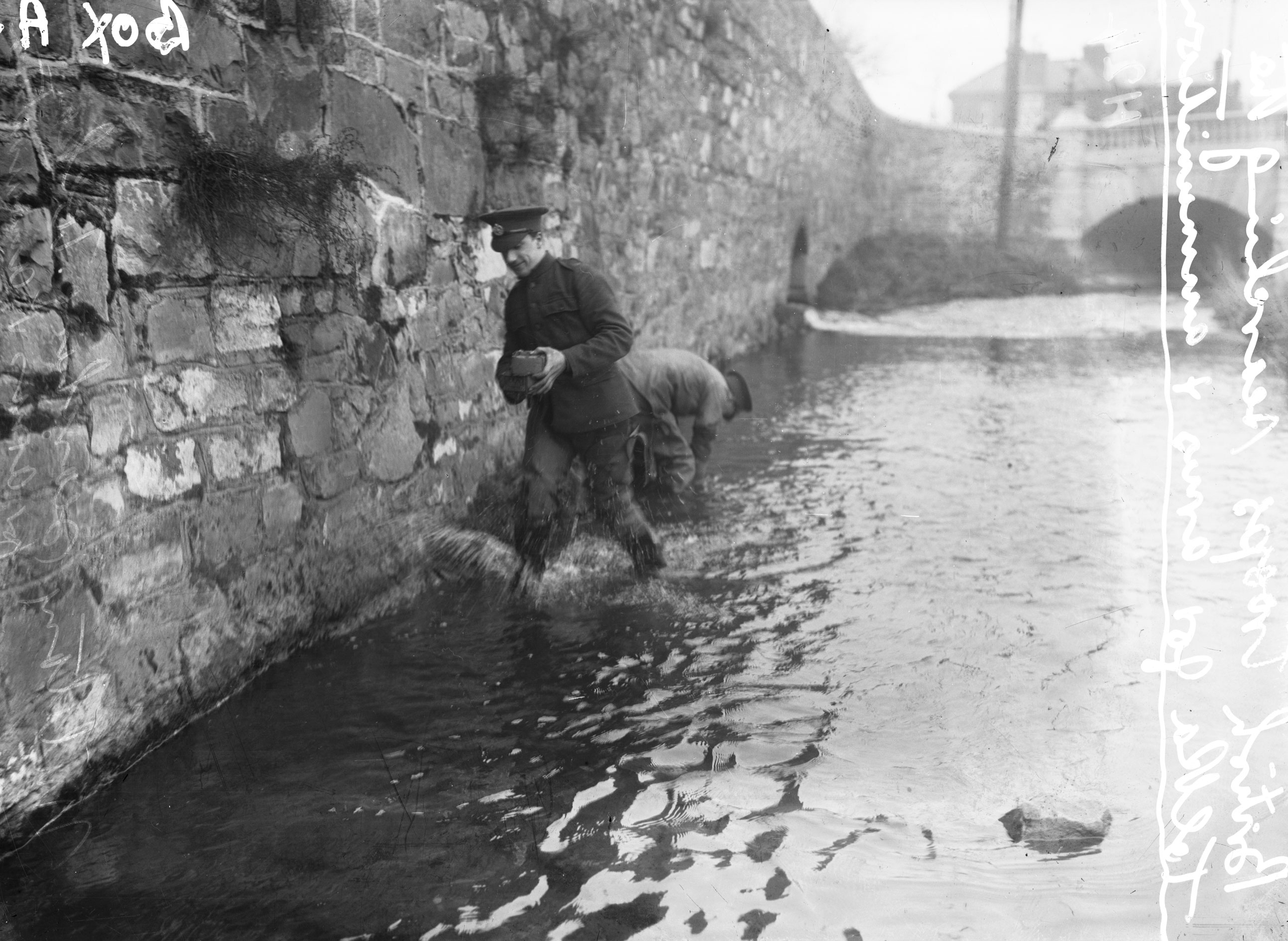 British soldiers searching the River Tolka in Dublin for arms and ammunition after the Easter Rising. Unsure if the happy soldier has actually found ammunition, or is smiling because of the camera... Also not sure if that's Annesley Bridge in the background? Date: May 1916 NLI Ref.: INDH24